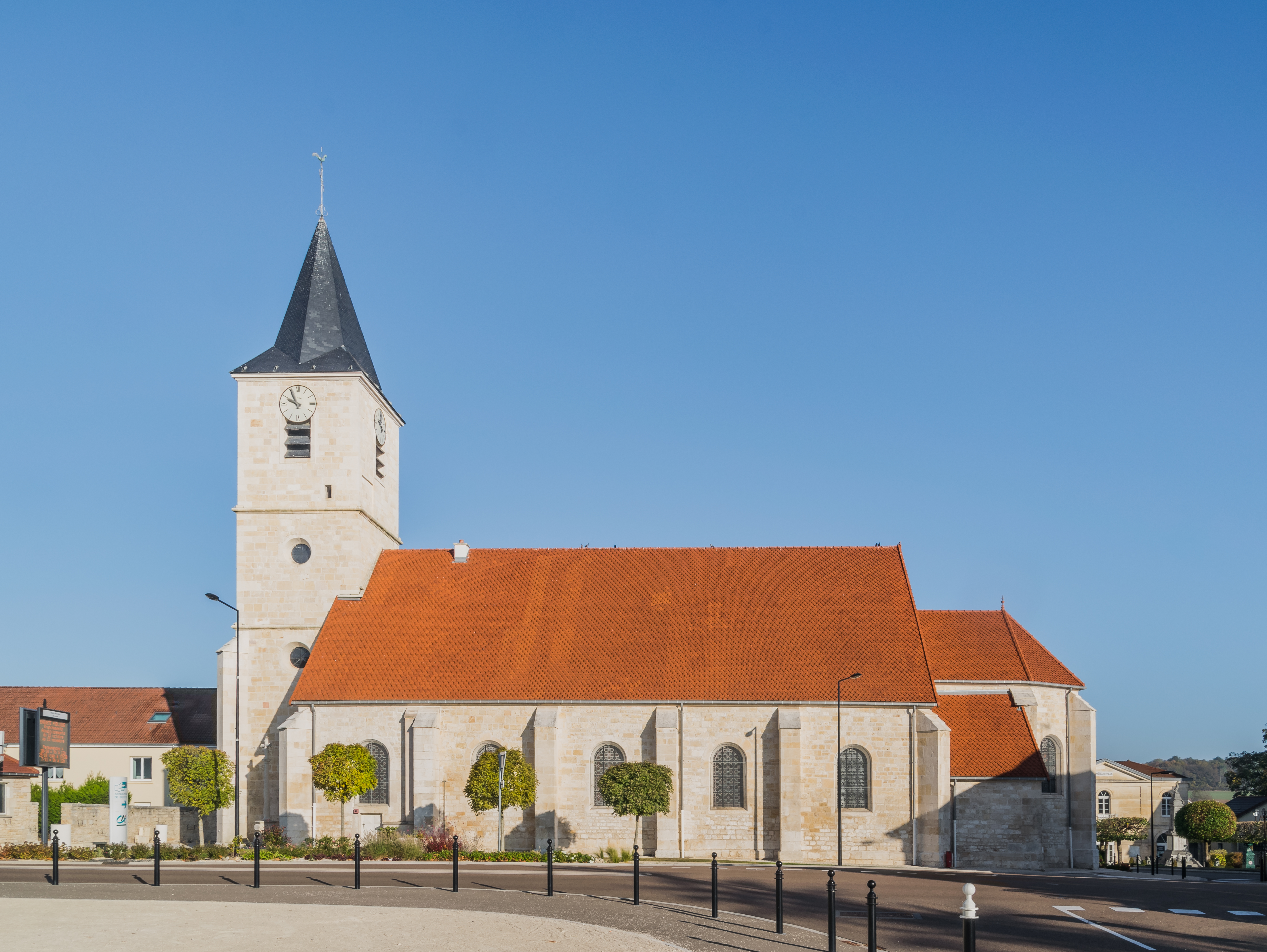 Saints Peter and Paul church of Biesles, Haute-Marne, France